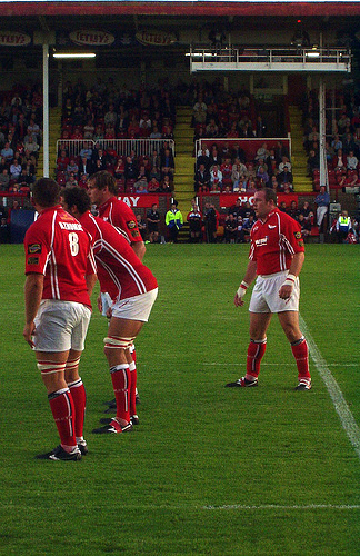 Rugby union match between Llanelli Scarlets and Glasgow Warriors at Stradey Park, Llanelli, Wales.